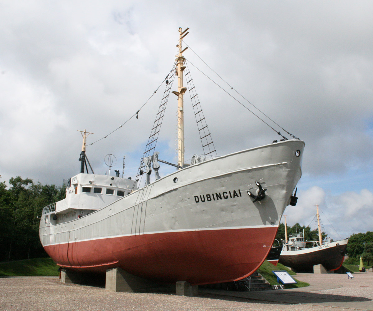 Ship Dubingiai in Klaipėda Lithuaniai Sea Museum